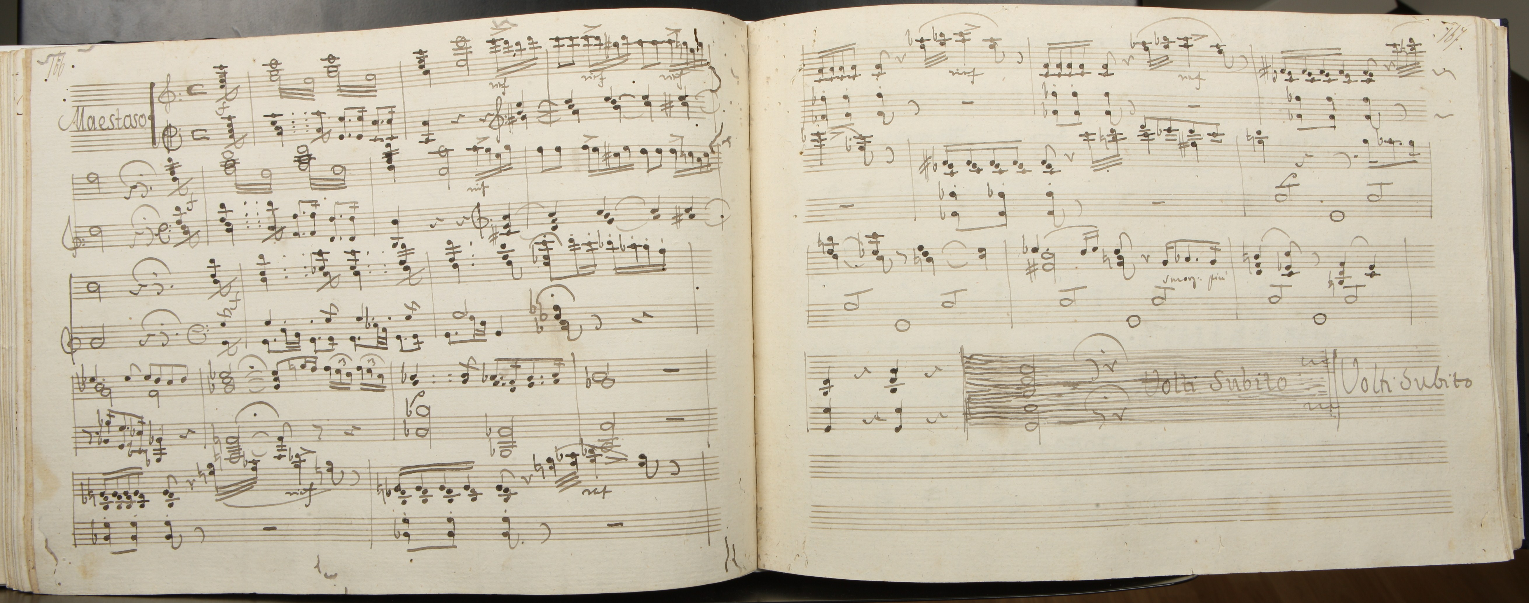 The opening pages from a piano 'Sinfonia' by Nikolaos Mantzaros, exhibited in the Music Museum of the Corfu Philharmonic Society